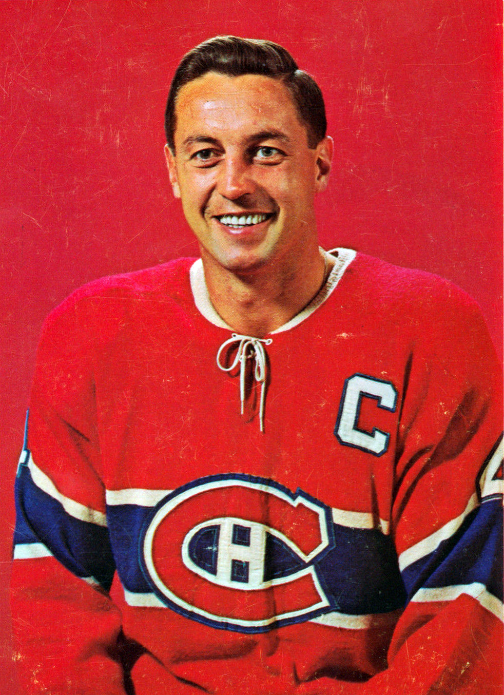 Trading card photo of Jean Beliveau as a member of the Montreal Canadiens. These cards were printed on the backs of Chex cereal boxes in the US and Canada from 1963 to 1965. Those collecting the cards cut them from the back of the boxes.